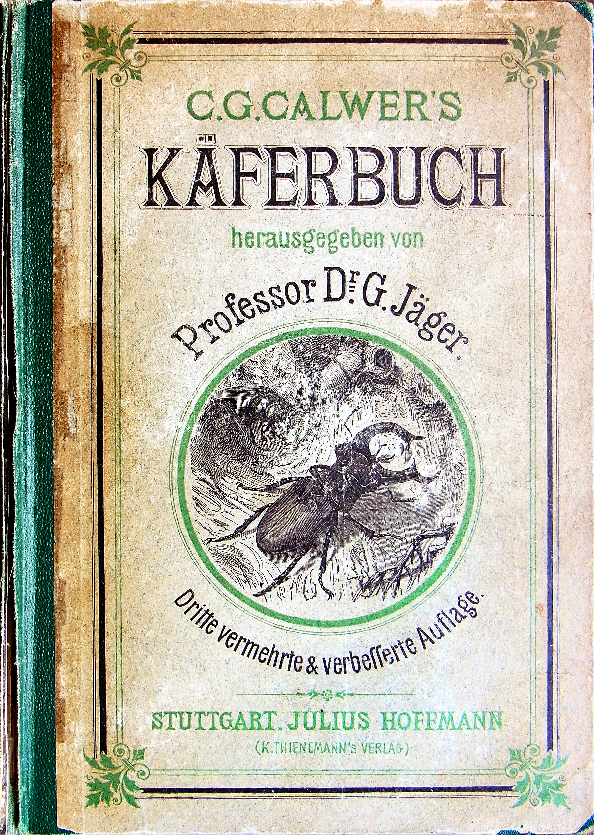 Book cover, front